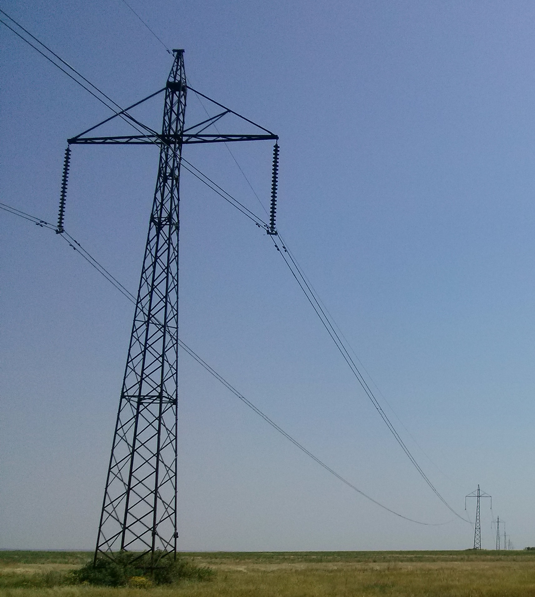 HVDC Volgograd–Donbass, electric power transmission